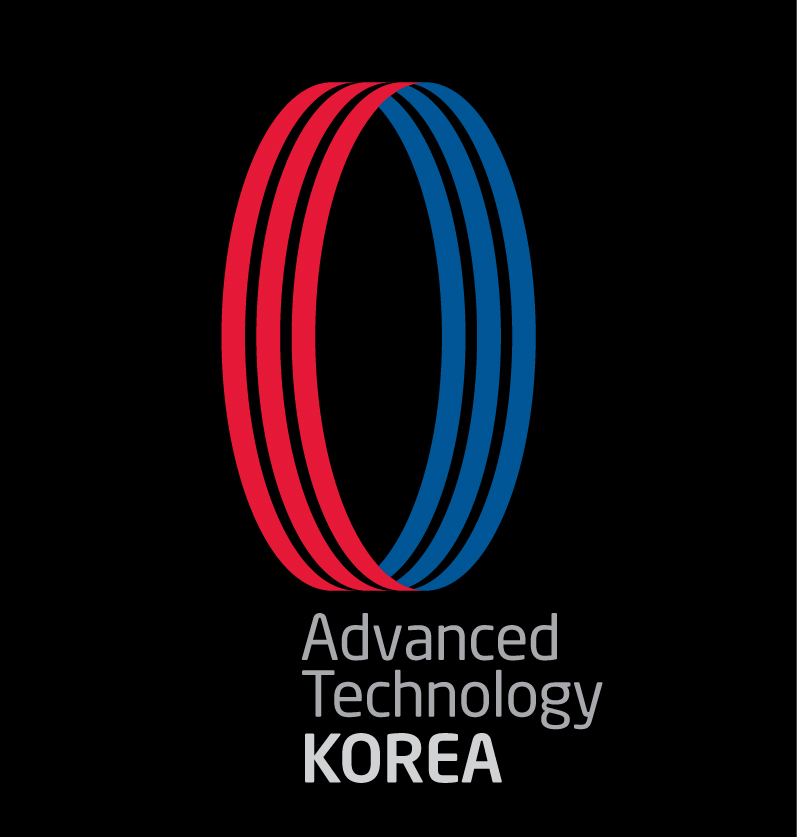 This is a fully credited project supported by the Korea Trade-Investment Promotions Agency, the Ministry of Knowledge Economy, the Presidential Council on National Branding and operated by Social Link. This project aims to be a place where anyone can find information about Korea’s most innovative technology, design and business.